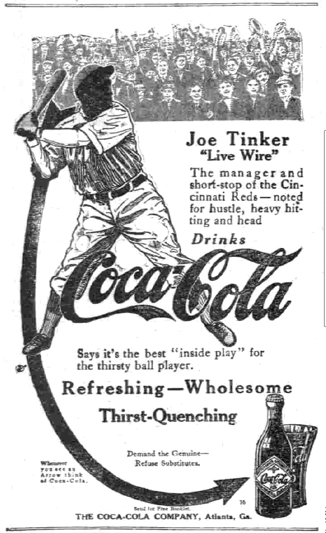 Baseball player Joe Tinker in a Coca-Cola ad from 1913 in a Texas newspaper. Cropped and levels adjusted.